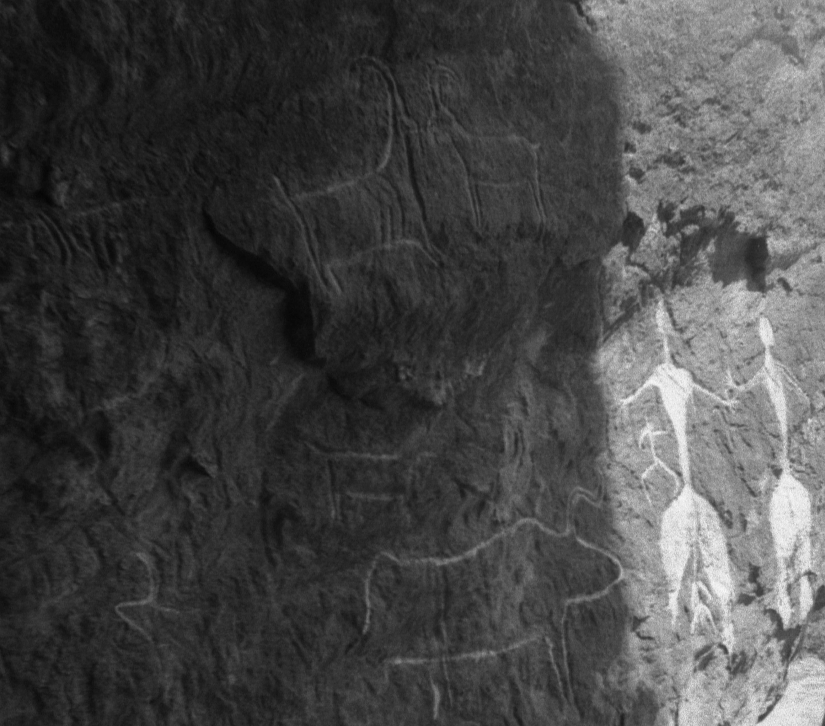 caves of Gobustan 1987